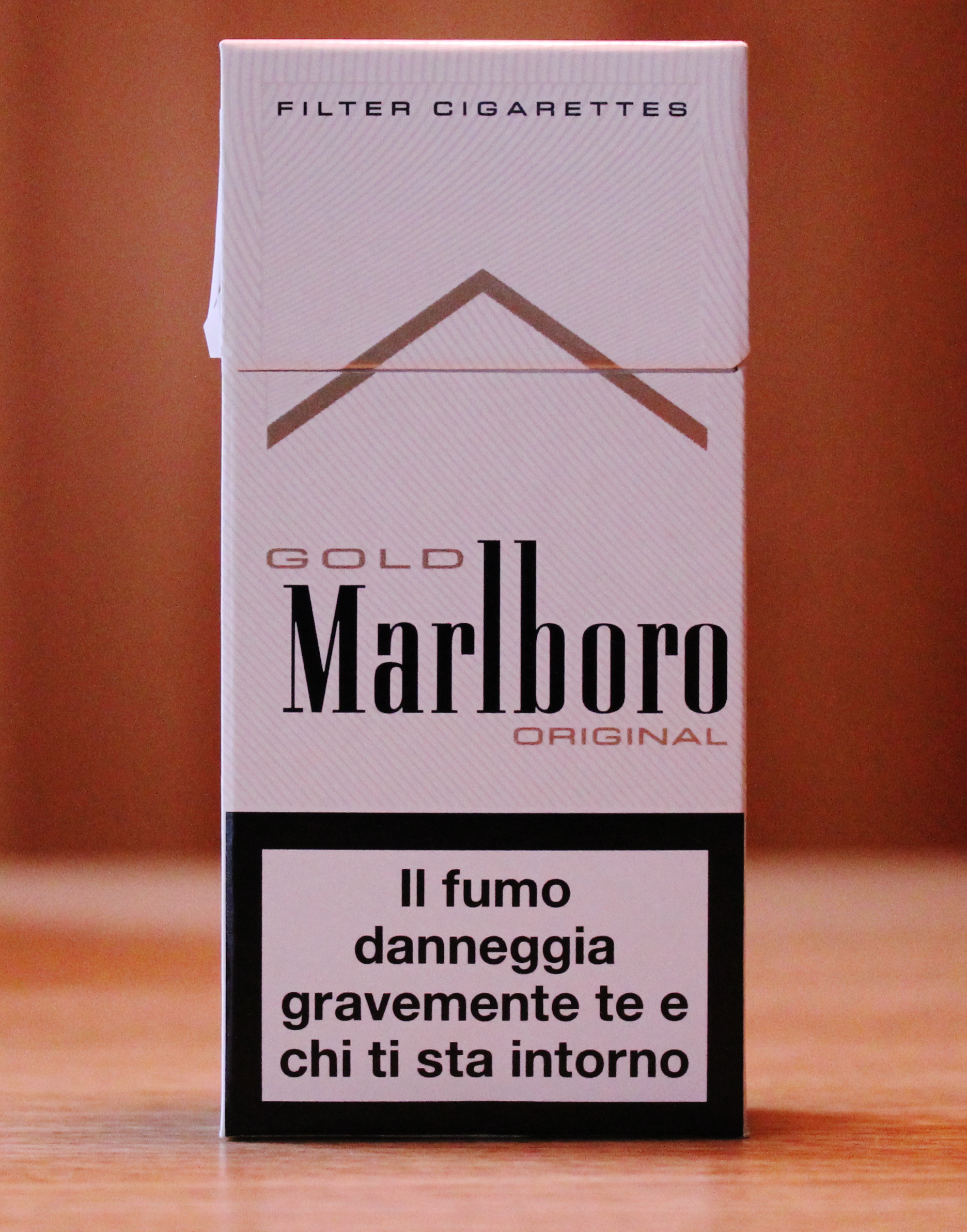 Marlboro Gold